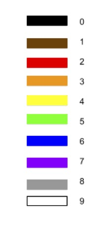 Resistor Color Code